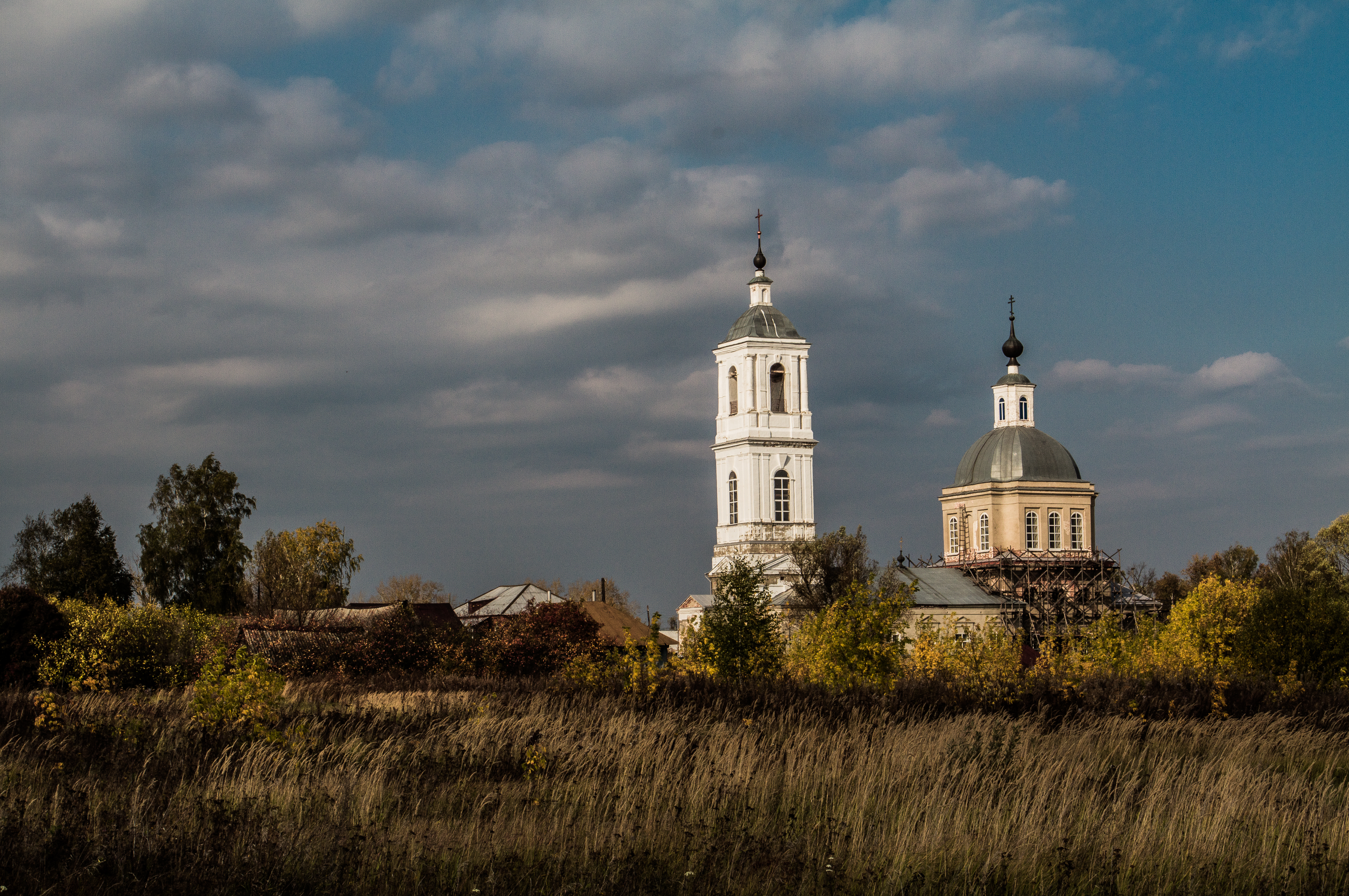 Church of the Intercession : Zhegalovo , Temnikovsky District , Mordovia